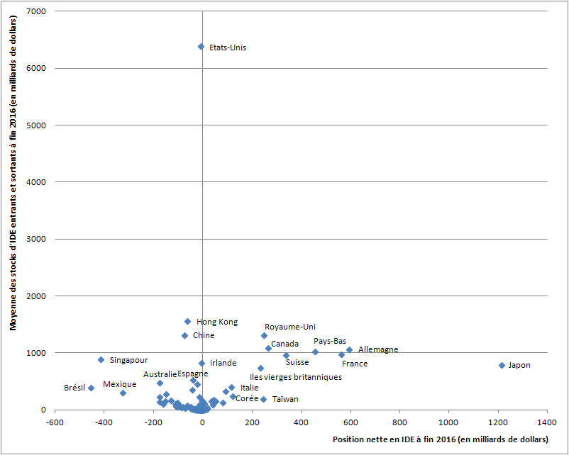 Net FDI position and average stocks of outward and inward FDI by country at end-2016 (US dollars in billions)